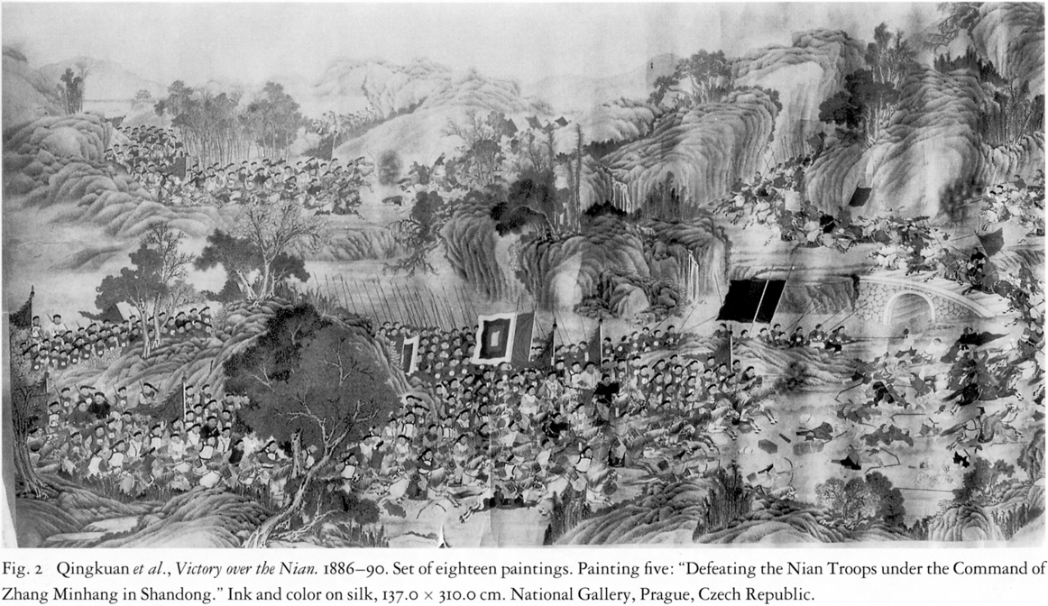 A battle of the Nien Rebellion (1851–1868). From "Victory over the Nian", a set of eighteen paintings.